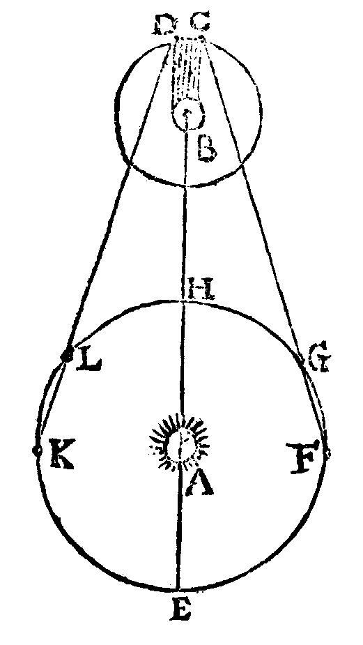 A diagram illustrating Rømer's determination of the speed of light. A: The Sun B: Jupiter C: immersion of Io into Jupiter's shadow at the start of an eclipse D: emergence of Io from Jupiter's shadow at the end of an eclipse E–H, K, L: positions of Earth at different dates (illustrative) E: point of conjunction H: point of opposition